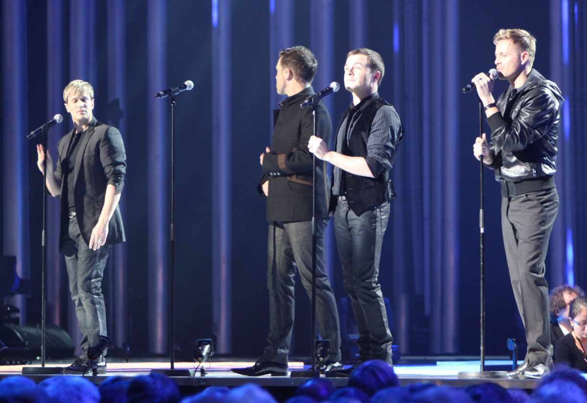 Westlife at The Nobel Peace Price Concert 2009